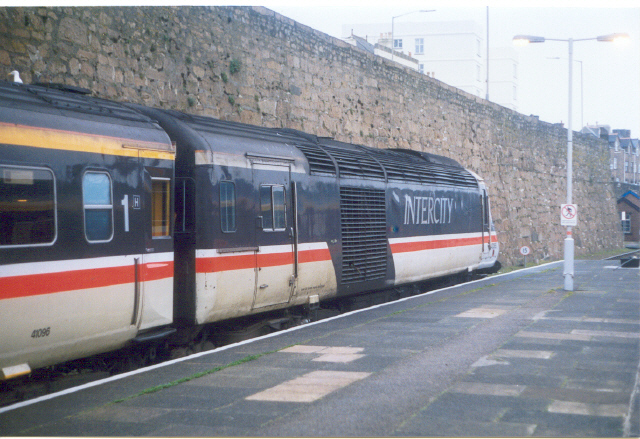 Penzance. The afore-mentioned train for Bristol - and beyond. Actually, I think that it was probably the "Voyager" service to Edinburgh, being the opposite number of the service on which I travelled from Birmingham to Penzance.